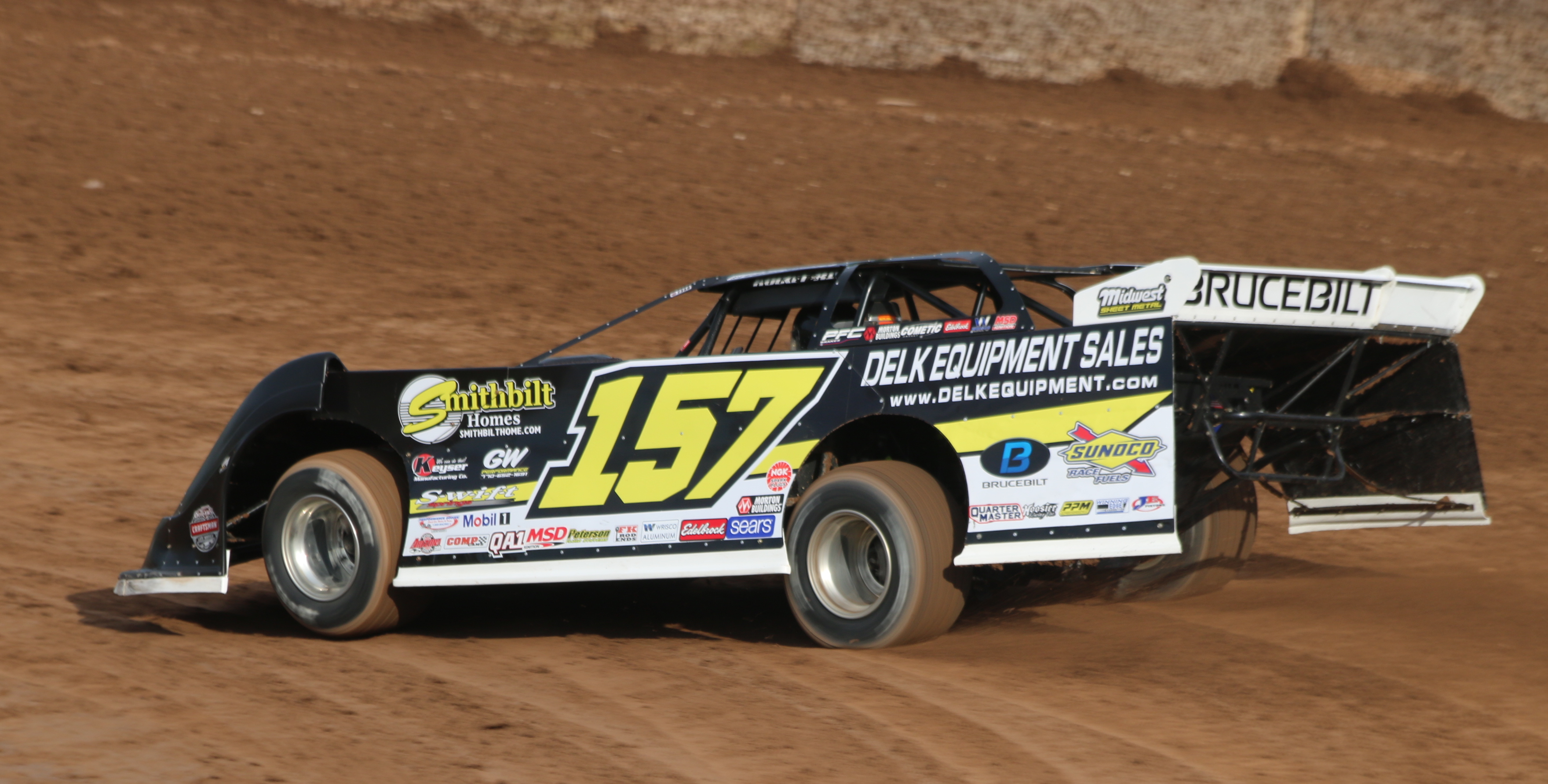 The race car of 2018 World of Outlaws Late Model Series champion Mike Marlar at the Plymouth Dirt Track (Sheboygan County Fairgrounds).